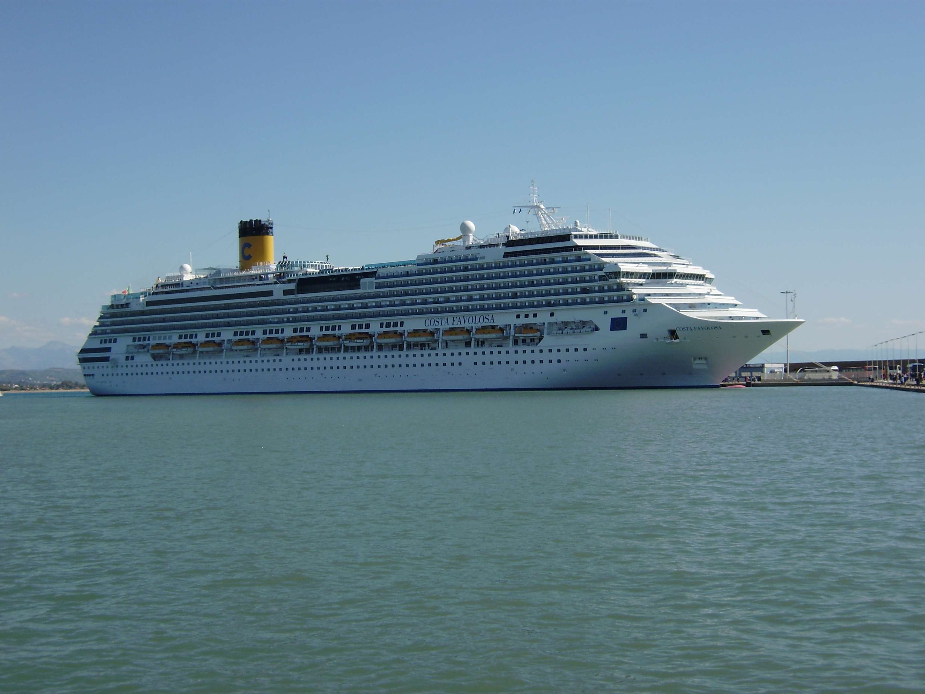 in the harbor of Katakolo